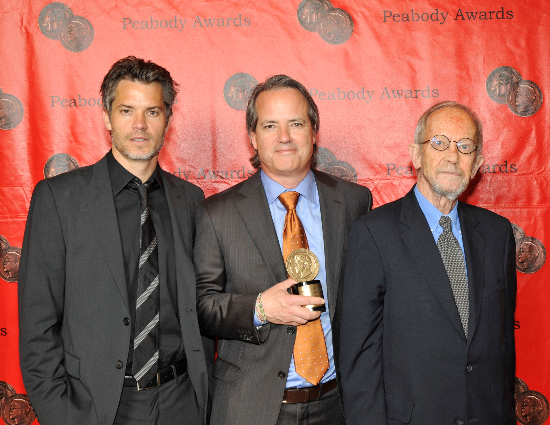 Justified's Timothy Olyphant and creators (Yost and Leonard) with their Peabody Award at the 70th Annual Peabody Awards Luncheon